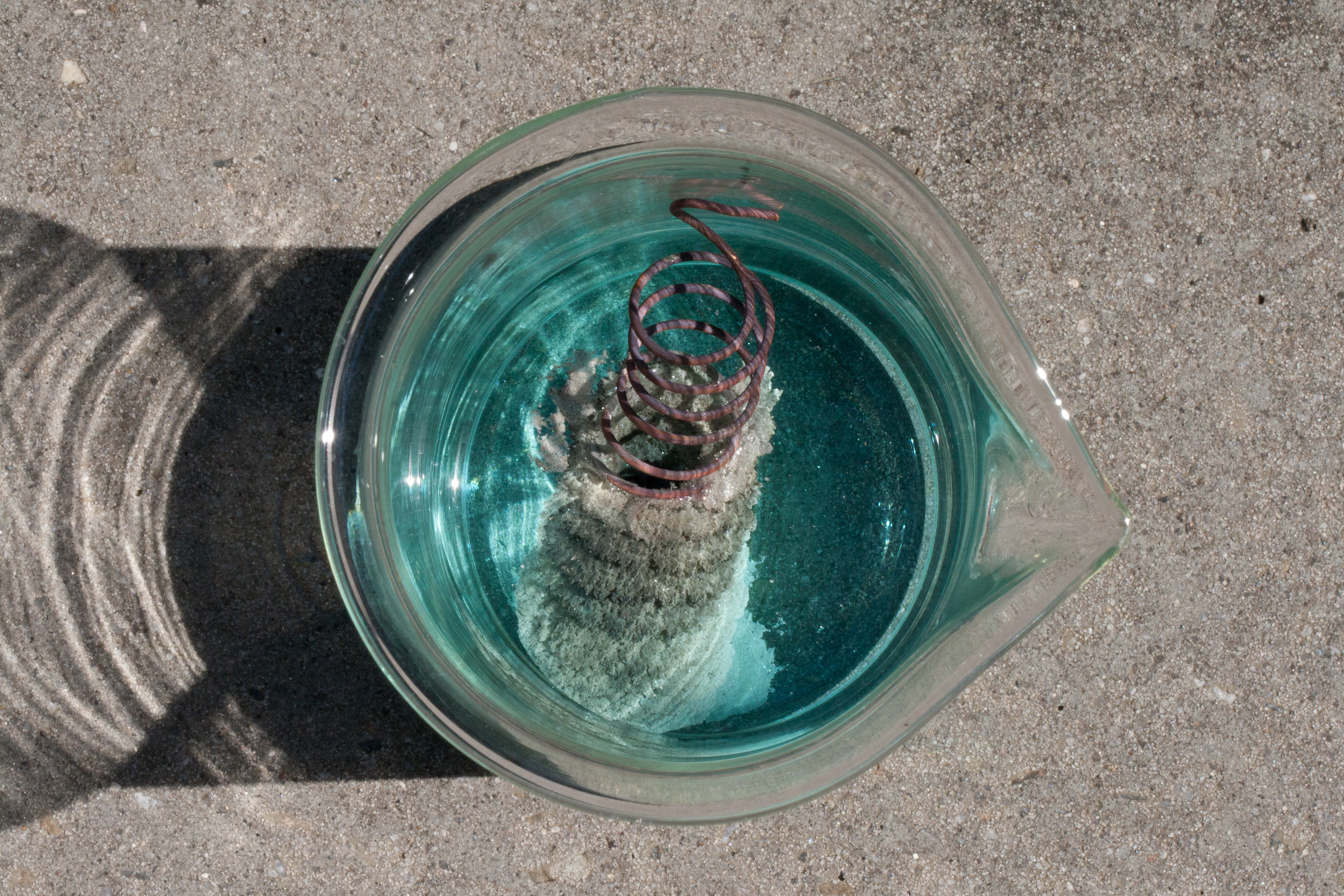 Precipitation of silver on copper from a silver nitrate solution.